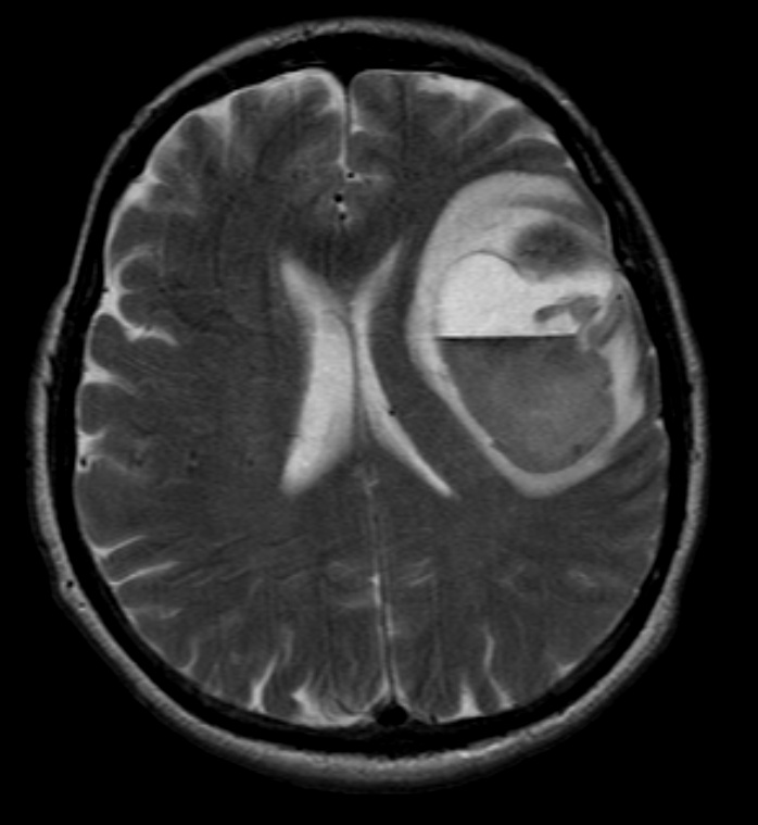 "This 59 year-old female patient presented with acute right hemiplegia, aphasia and confusion. She had a known cerebral melanoma metastasis in the left frontal lobe. This axial T2-weighted MR (click image for arrows) shows a large haematoma with a fluid-fluid level (green arrows). There is a smaller low signal area anteriorly (red arrows) which corresponded to the known metastasis. This smaller area enhanced after gadolinium, as did the overlying dura." (dr Dawes)